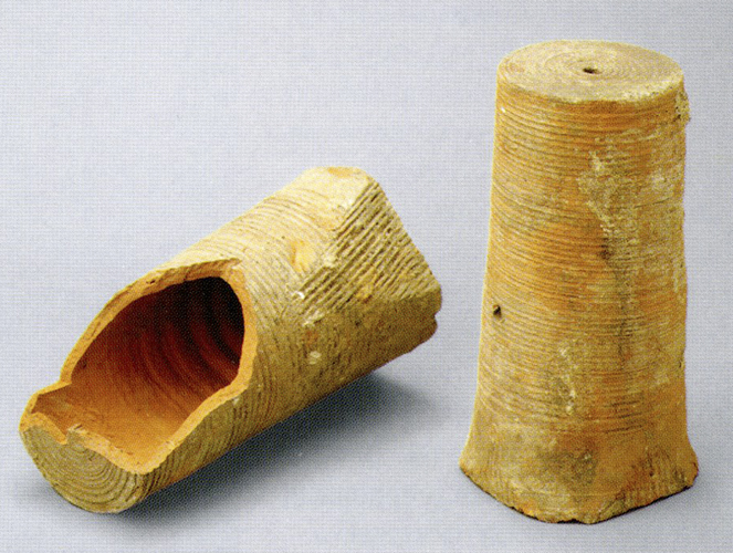 Ceramic chamber pots for vaulted ceilings of the Winter Palace. Plant Ginter. The State Hermitage Museum, St. Petersburg